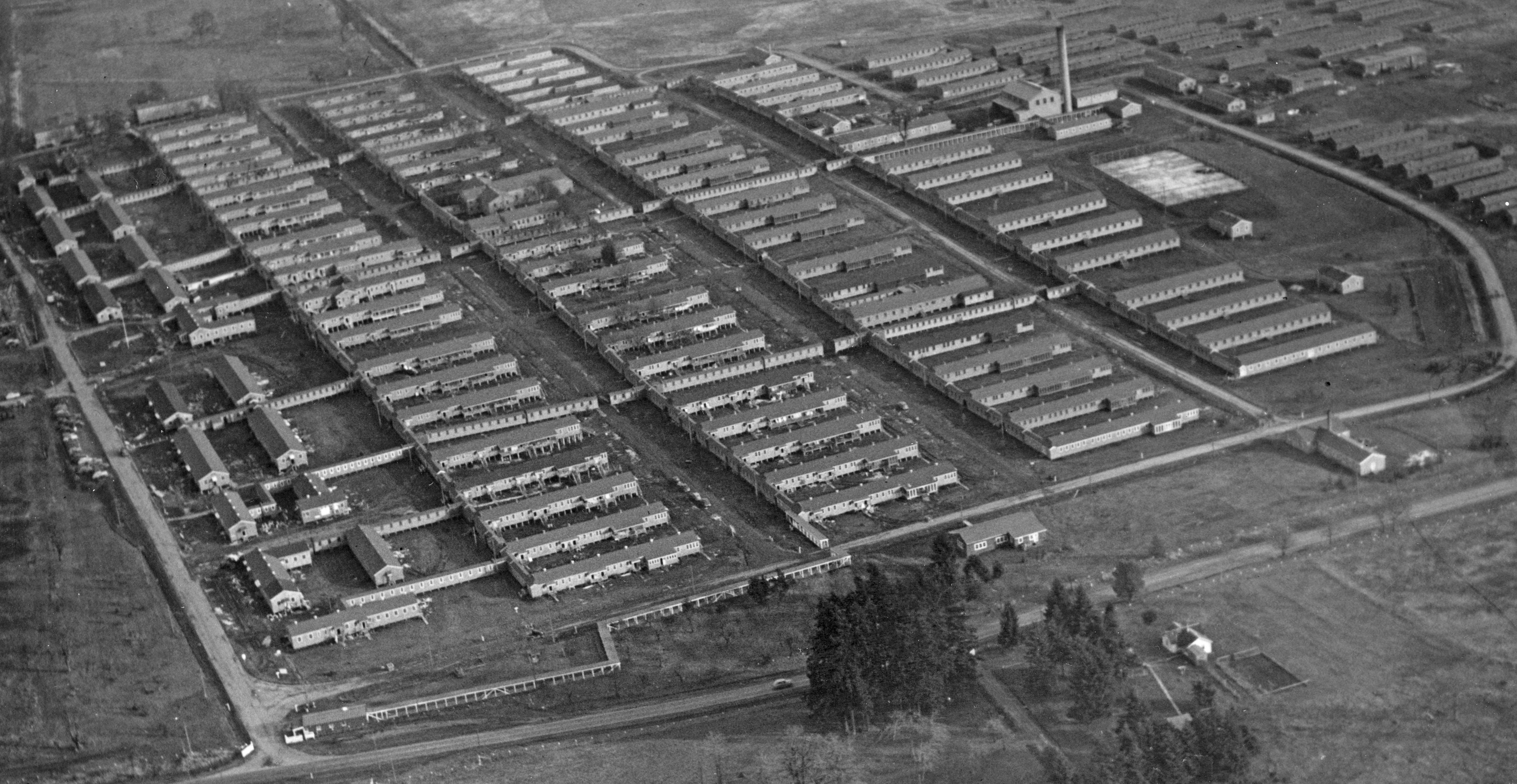 Original Collection: Harriet's Collection Item Number: HC0816 Image Description: The Adair hospital unit was converted into apartments for OSC students from 1946-1951, marking the beginning of Adair Village. Highway 99W is seen in the foreground. You can find this image by searching for the item number by clicking Want more? You can find more We're happy for you to share this digital image within the spirit of The Commons; however, certain restrictions on high quality reproductions of the original physical version may apply. To read more about what “no known restrictions” means, please visit the or contact staff at the OSU Special Collections & Archives Research Center for details.